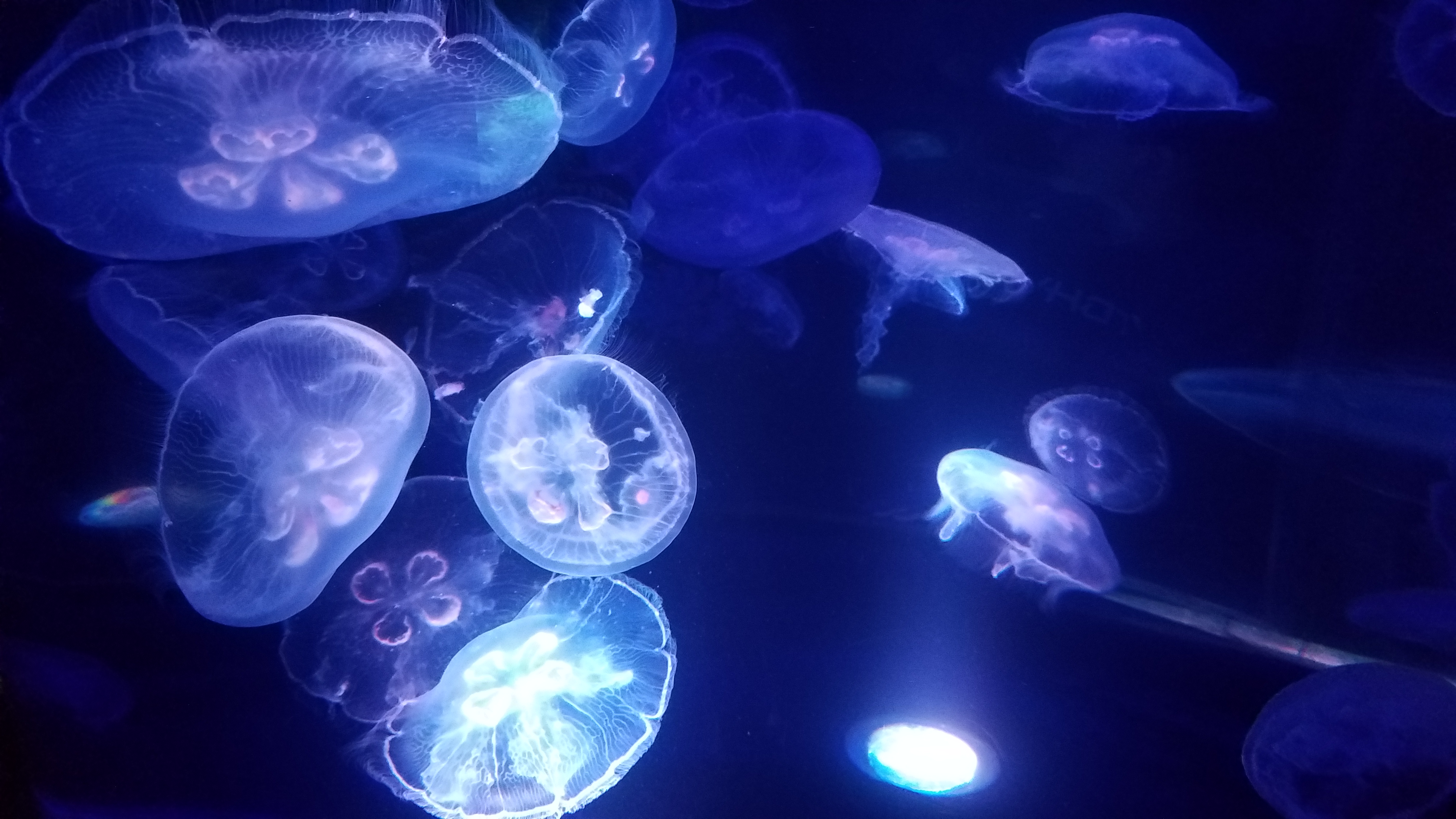 A lighted display of jellyfish at Waikiki Aquarium in Honolulu, Hawaii.